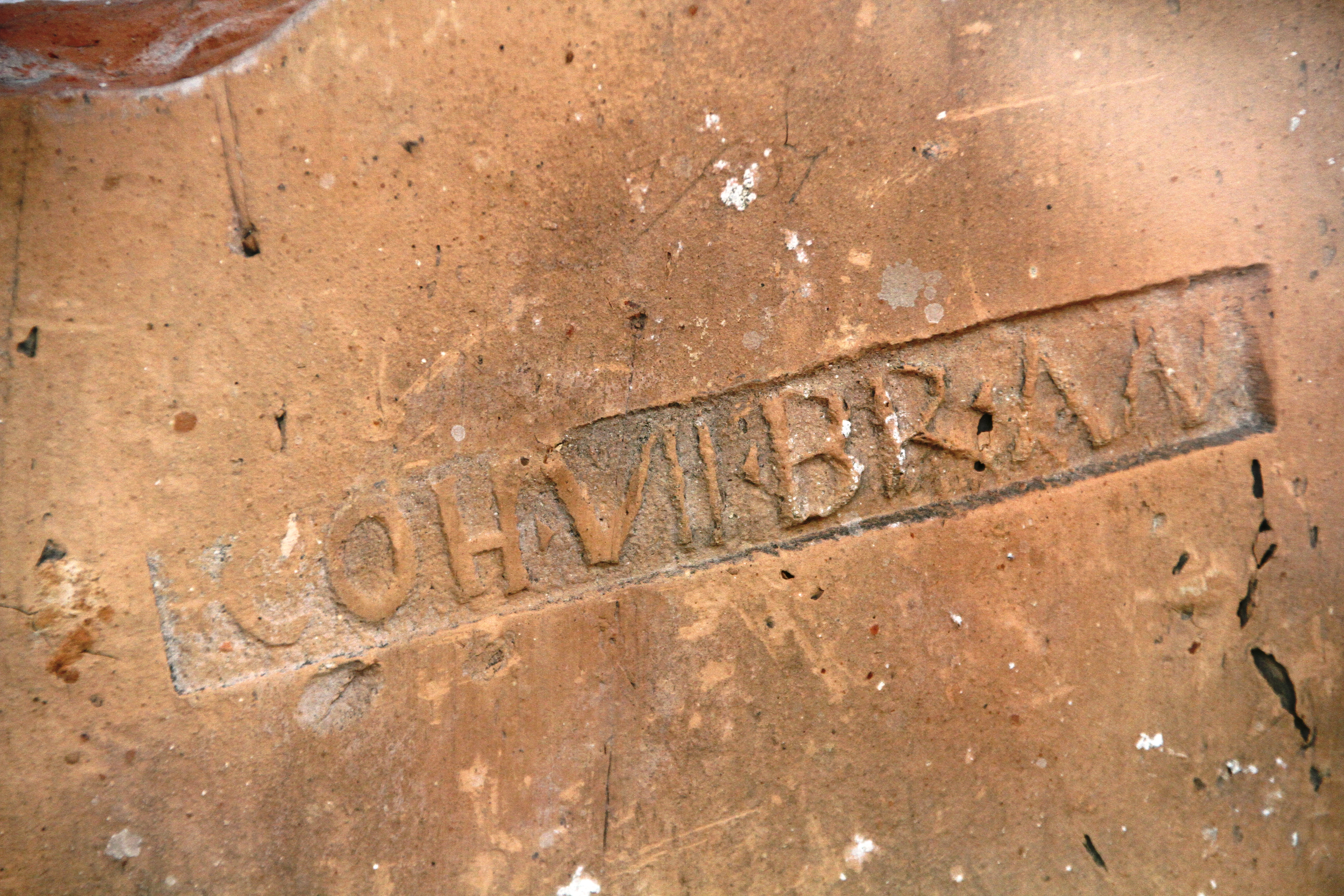 Ancient Roman brick from military workshop in Aquincum (Hungary), With stamp of military unit. 12.century AD.